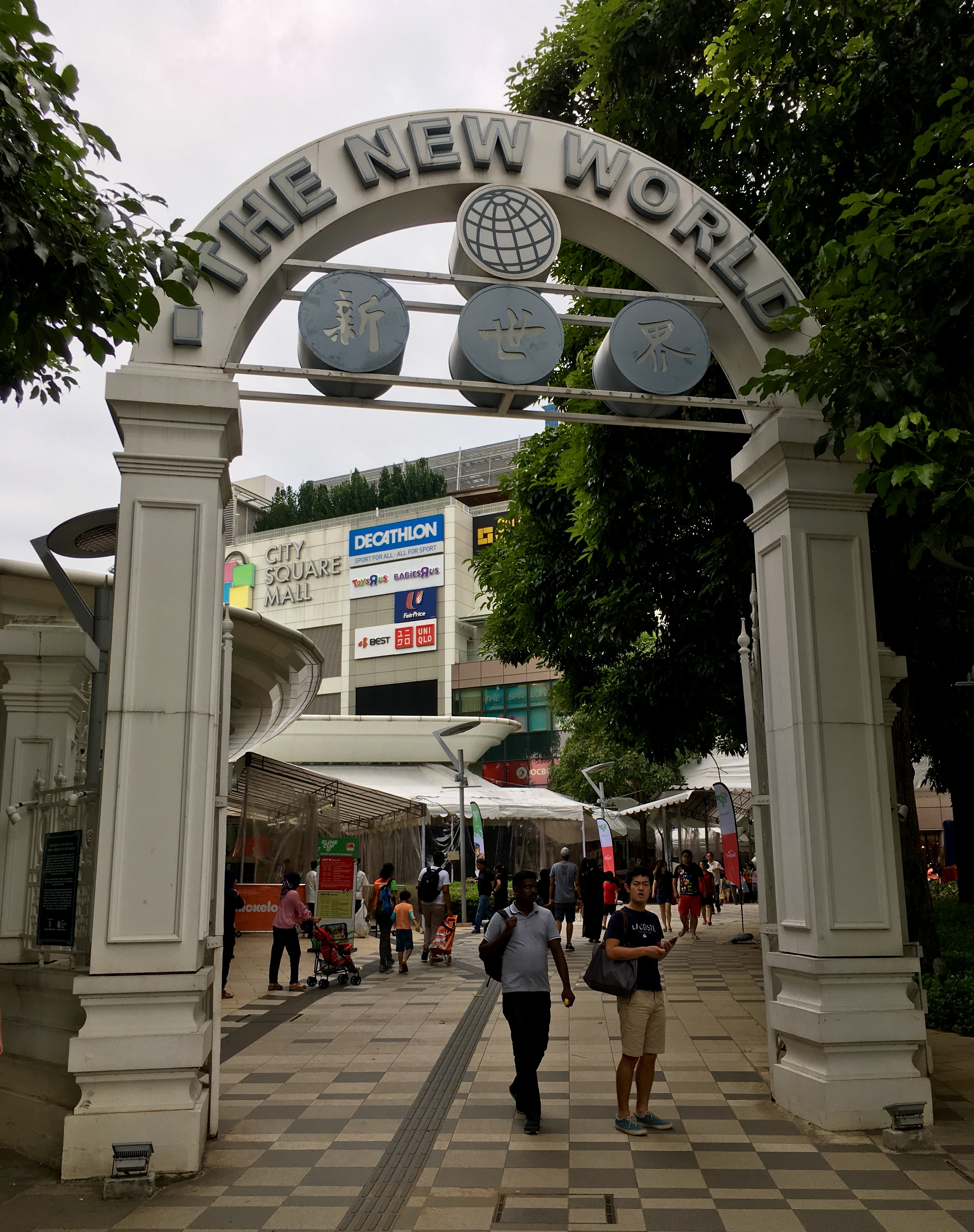 City Square Mall with the New World Amusement Park relic gate in the foreground